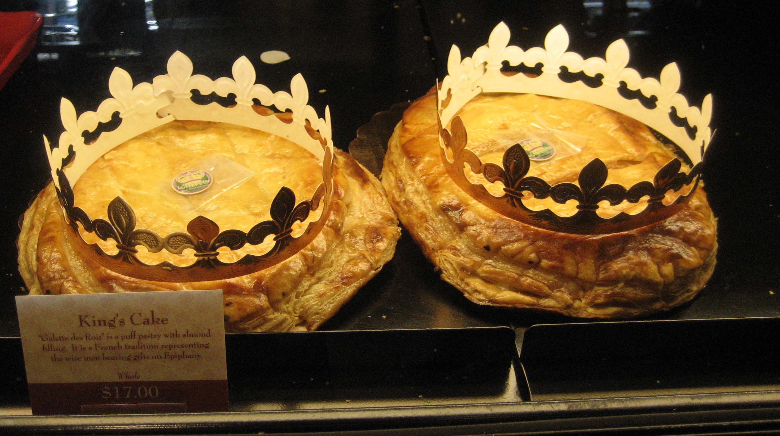 King cakes of the type locally called "French style" on display at the chain bakery/restaurant "La Madeline" branch in Carrollton, New Orleans. Note they come with cardbord "crowns" to be worn by whoever gets the slice with the token and becomes monarch of the event.